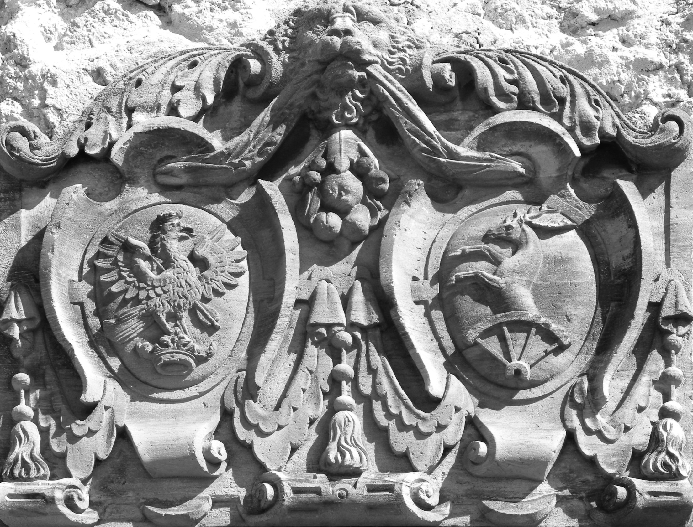 Coats of arms of István Illésházy and Katalin Pálffy. Plaque above the fourth gate, Castle of Trenčín, Slovakia.